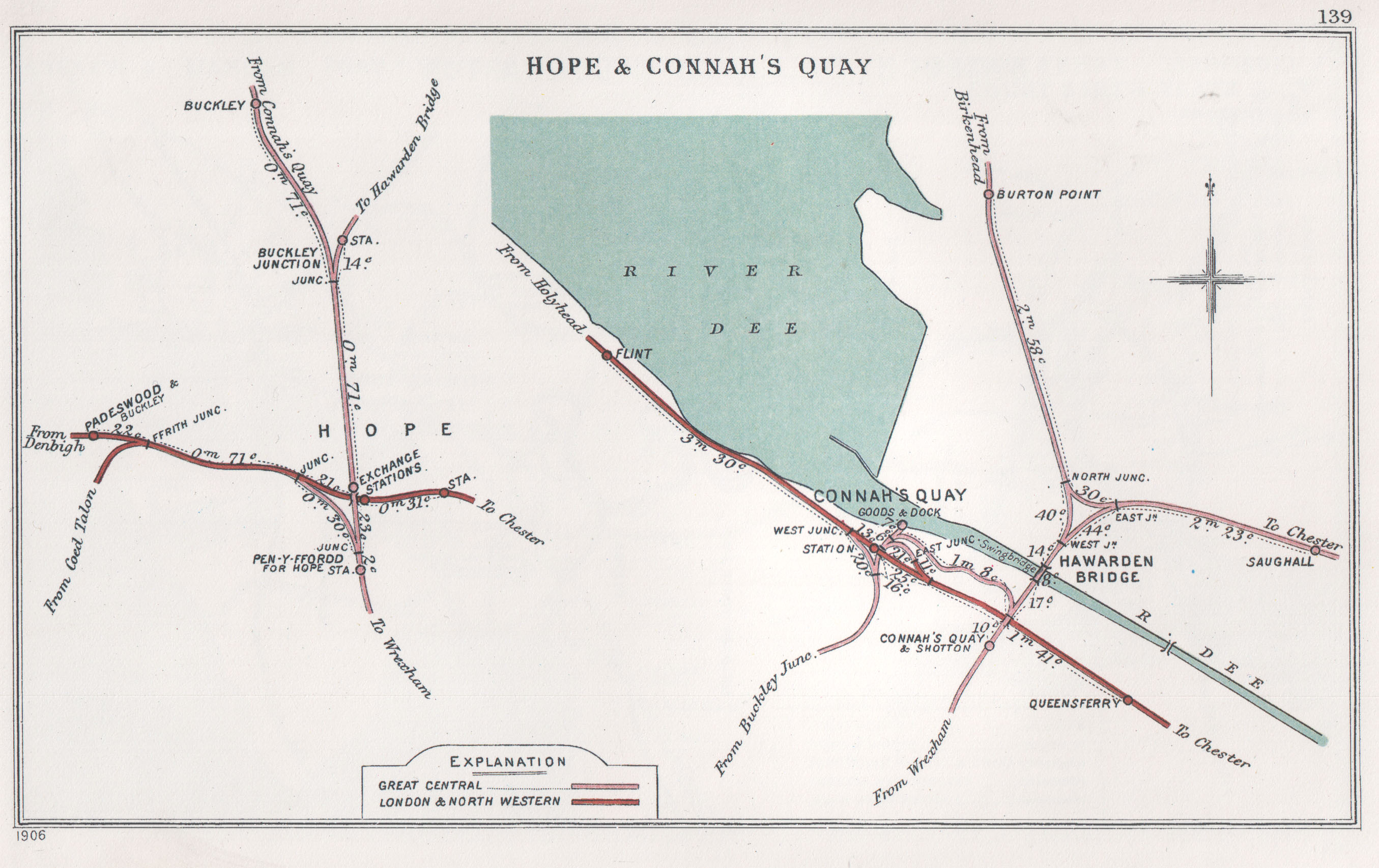 Pre Grouping railway junction around Hope & Connah's Quay